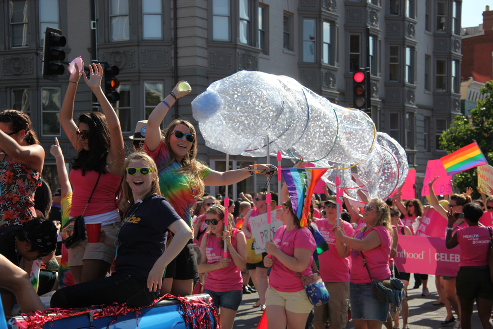 A huge contingent from Planned Parenthood marched in the crowd. Here, the lead portion of the contingent carries a gigantic condom through the streets. At the Capital Pride parade near Dupont Circle in Washington, D.C., in the United States on June 9, 2012.